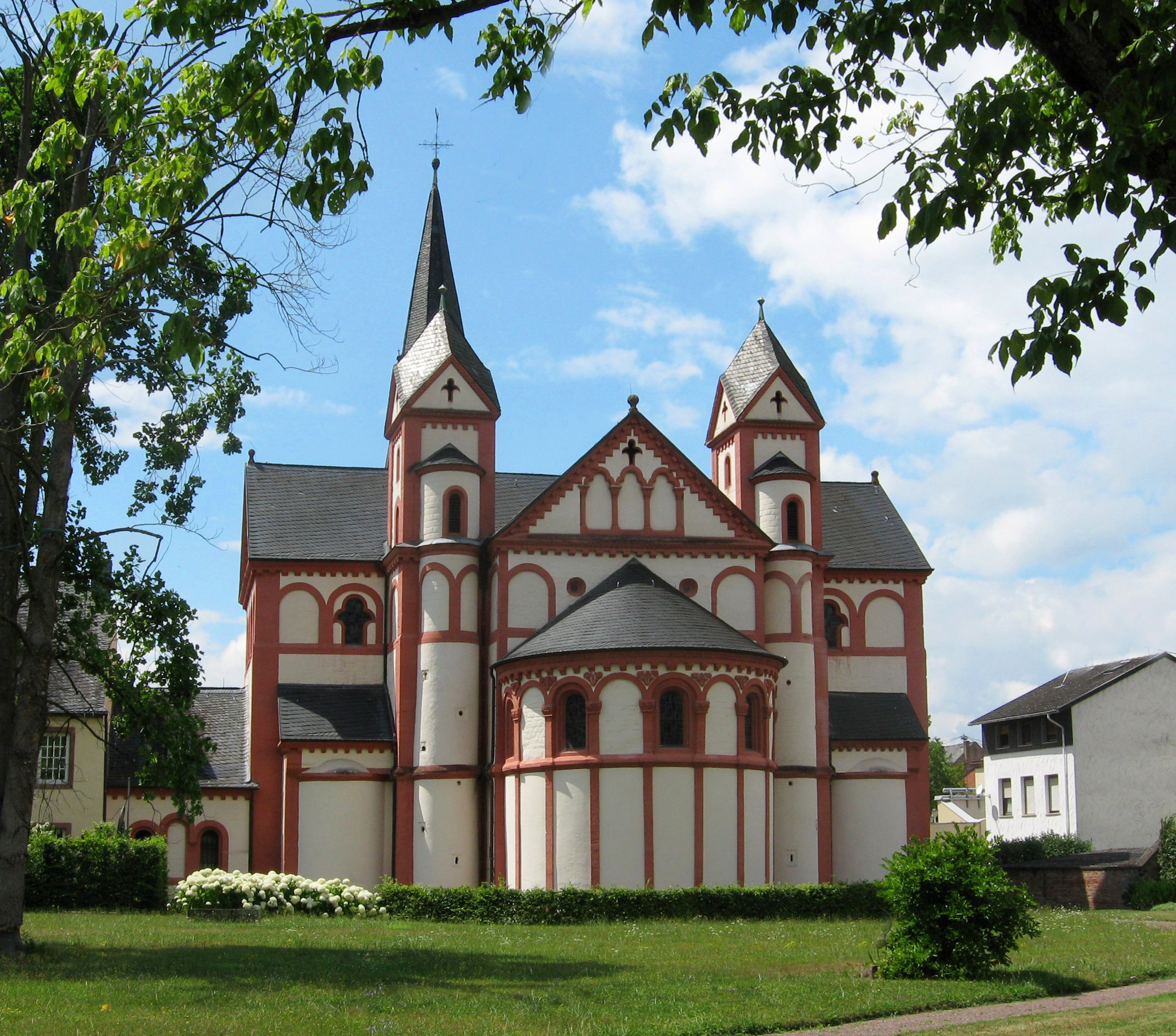 Church in Merzig